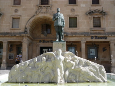 Statue of General Saro by sculptor Jacinto Higueras in Úbeda (Jaén)